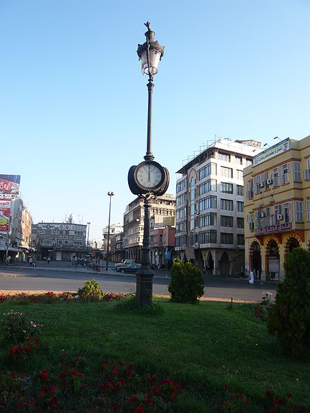 The Old Clock In Hims City.